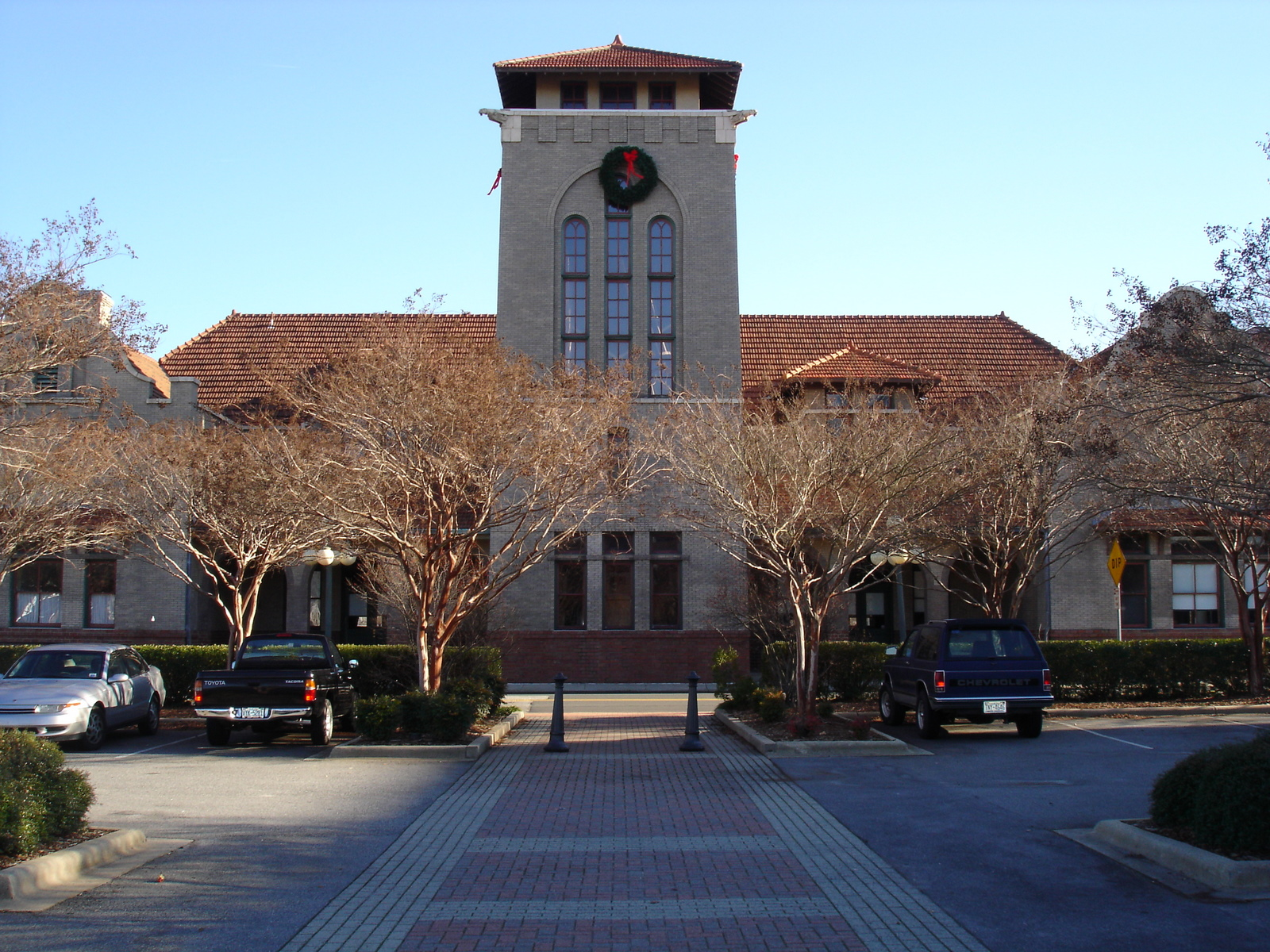 The train station at Salisbury, North Carolina, viewed from the front.